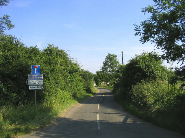 The dead-end road to Petsoe End. Looking south from junction with Newton Road